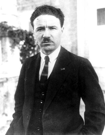 Boris Shumyatsky in Teheran, 1924